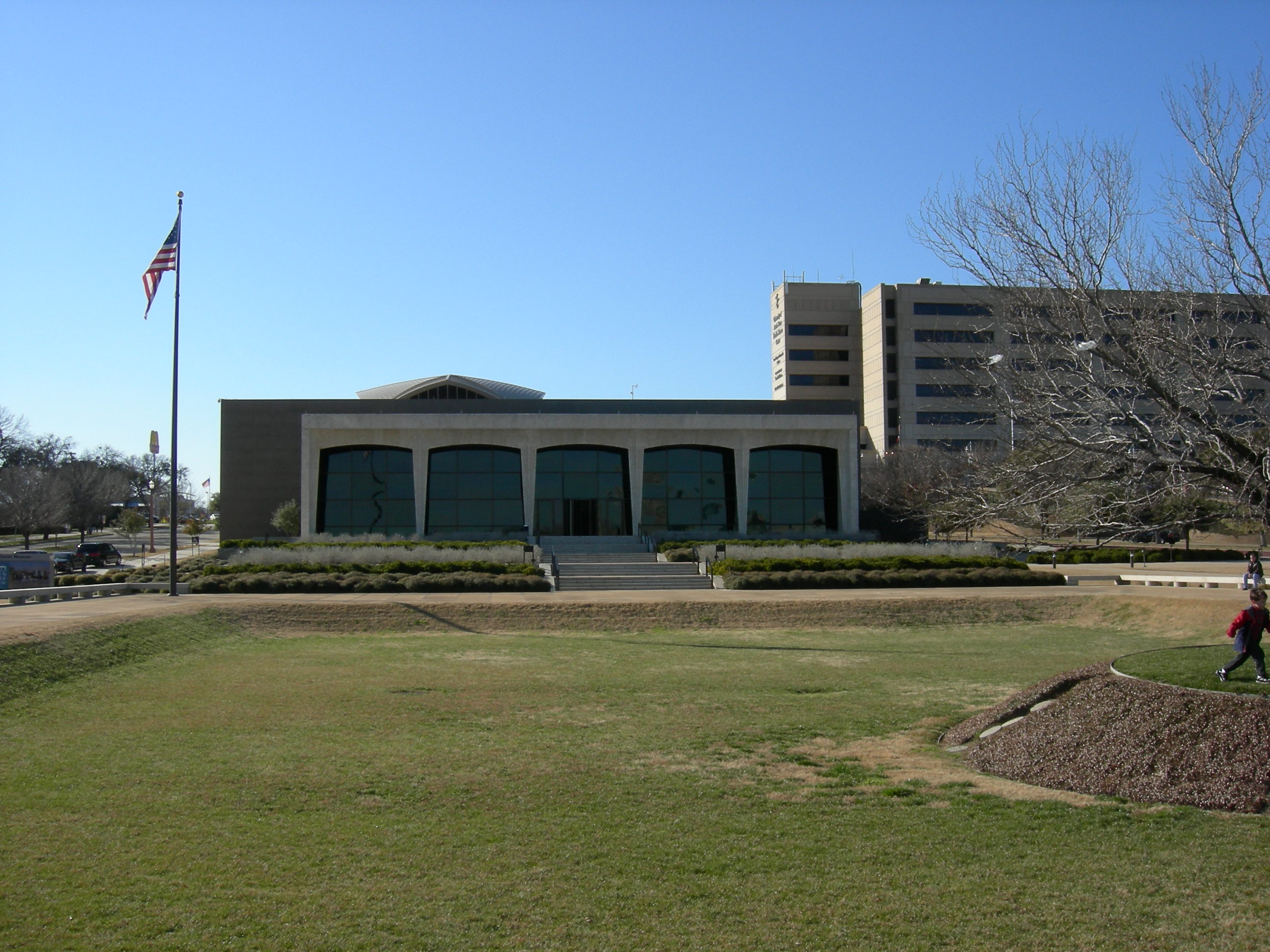 Amon Carter Museum, Fort Worth, Texas.